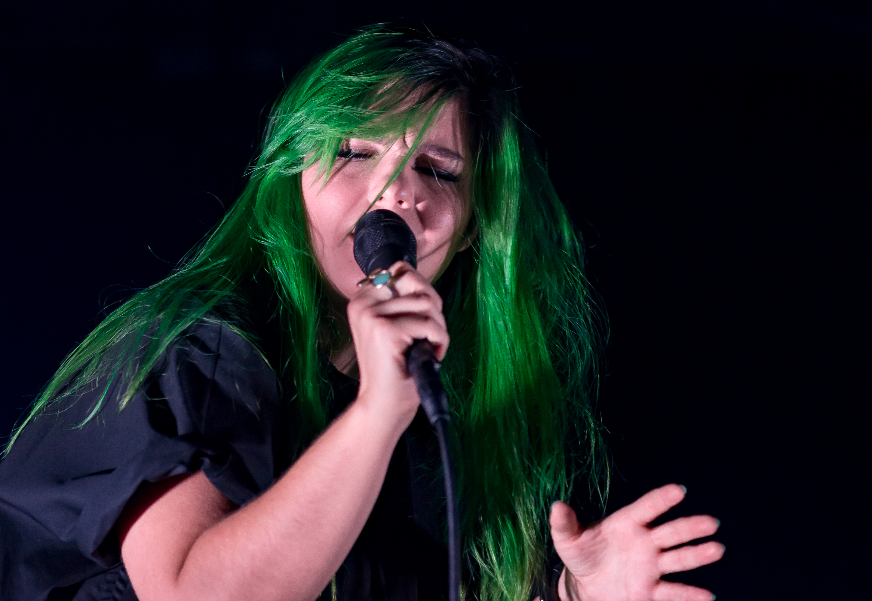 Phoebe Ryan performing live at Echoplex in Echo Park, Los Angeles, California, on Tuesday, November 14, 2017.